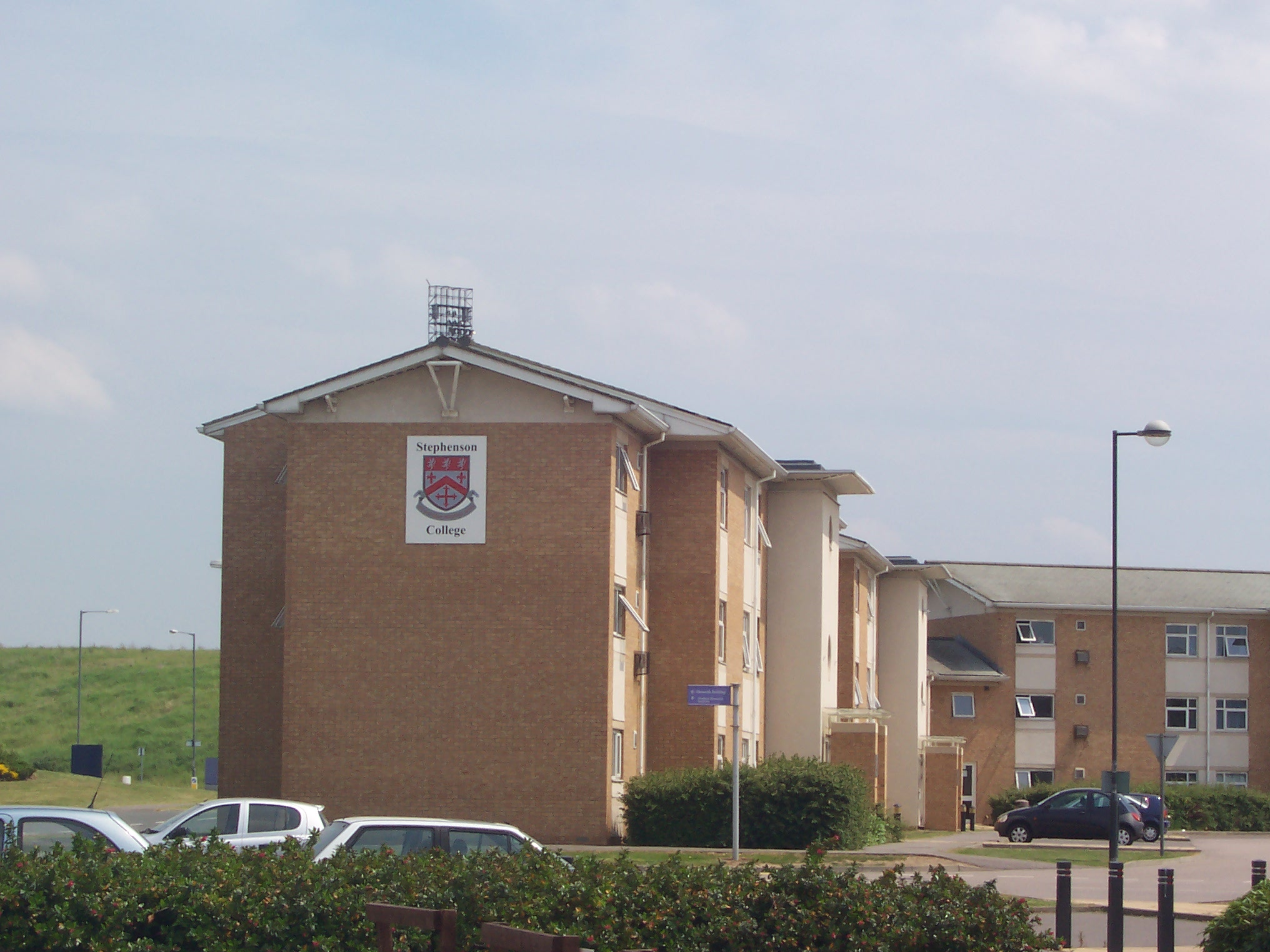 Stephenson College: College Halls Photo taken by Michael Smith, July 2006